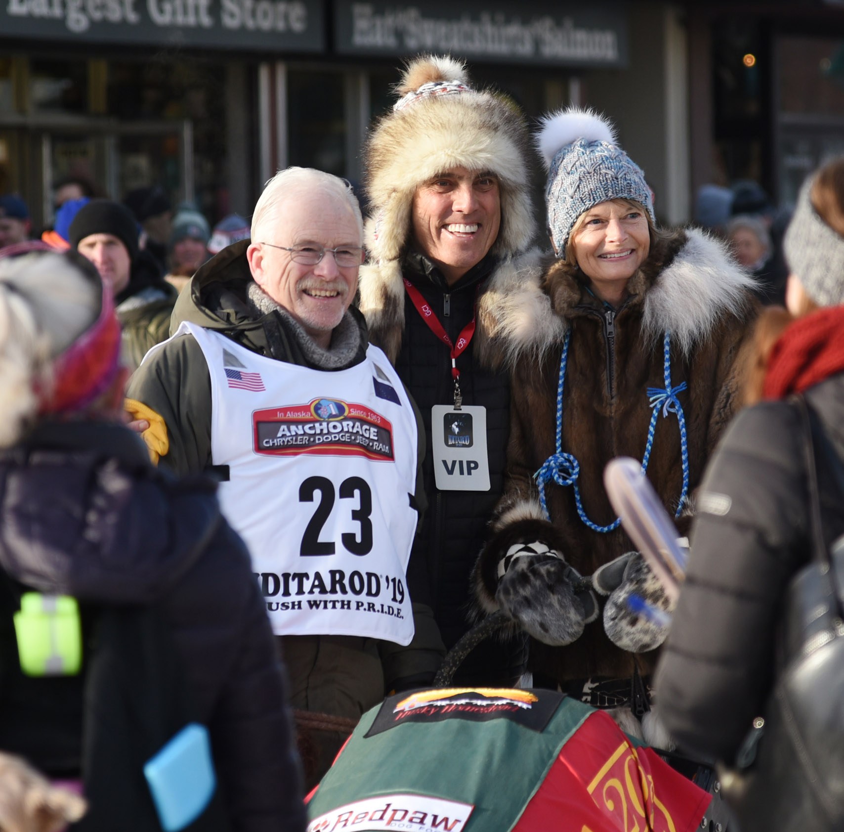 This photo is provided under a Creative Commons Attribution license. Please provide the following credit: "Photo used under Creative Commons license courtesy Paxson Woelber, The Alaska Landmine."